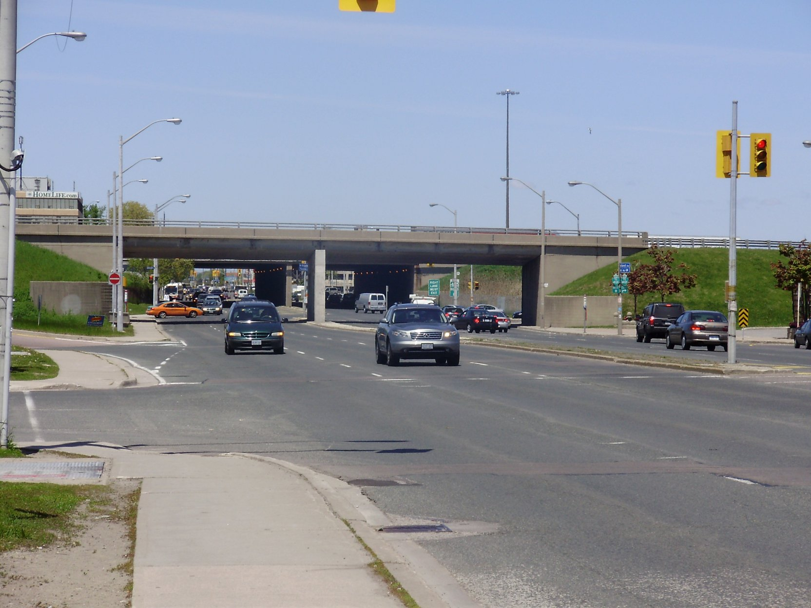 The northern extents of Dufferin Street in Toronto, Canada cross beneath Highway 401. Photo taken from the west side of Dufferin Street, across from Yorkdale Shopping Centre.